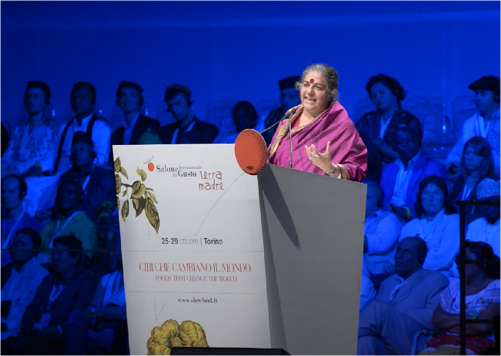 Vandana Shiva at the Salone internazionale del gusto - Terra Madre 2012, Torino - Italy.